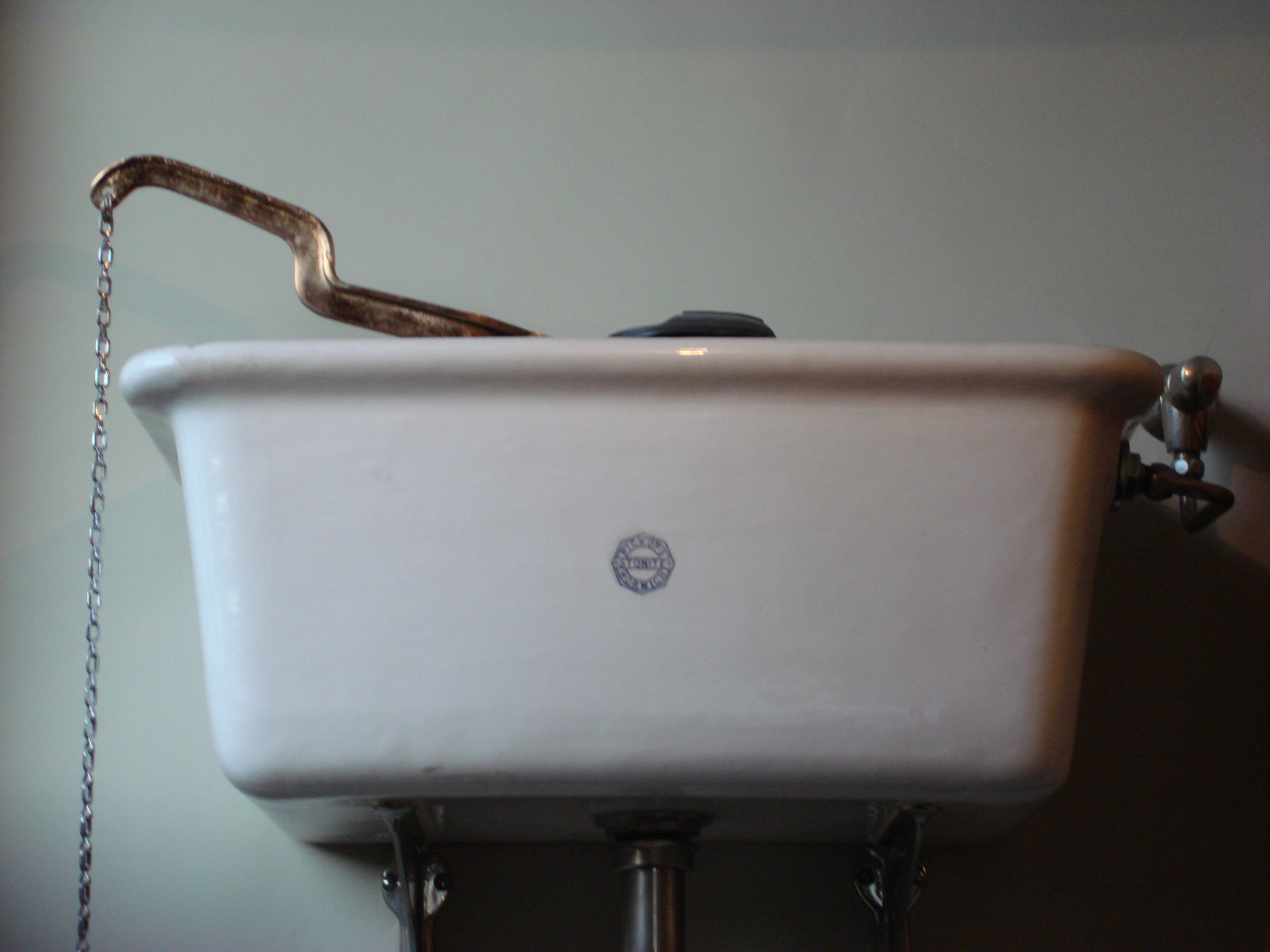 Thomas Crapper Toilet Victor Horta Museum, Brussels